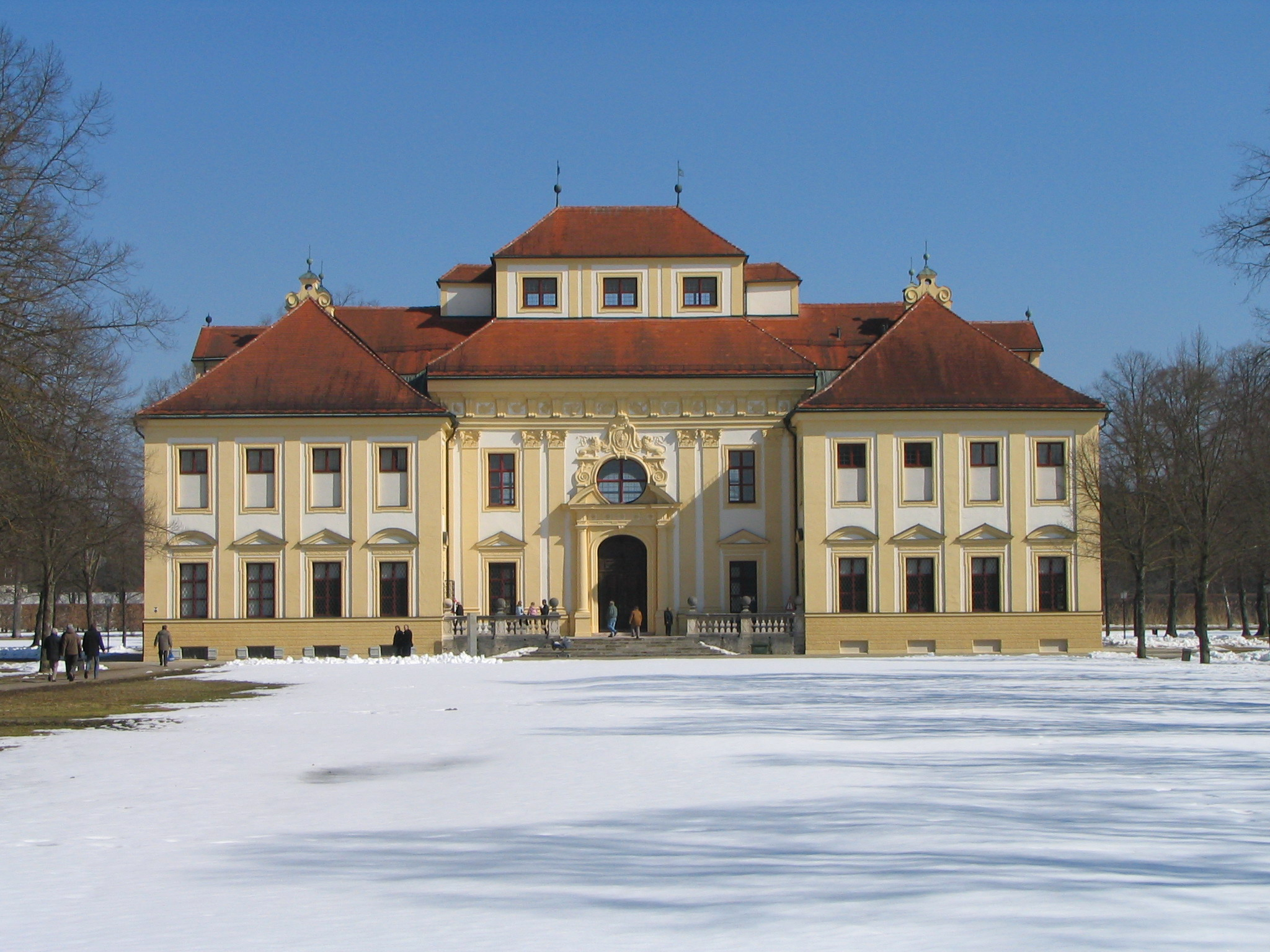 Lustheim Castle